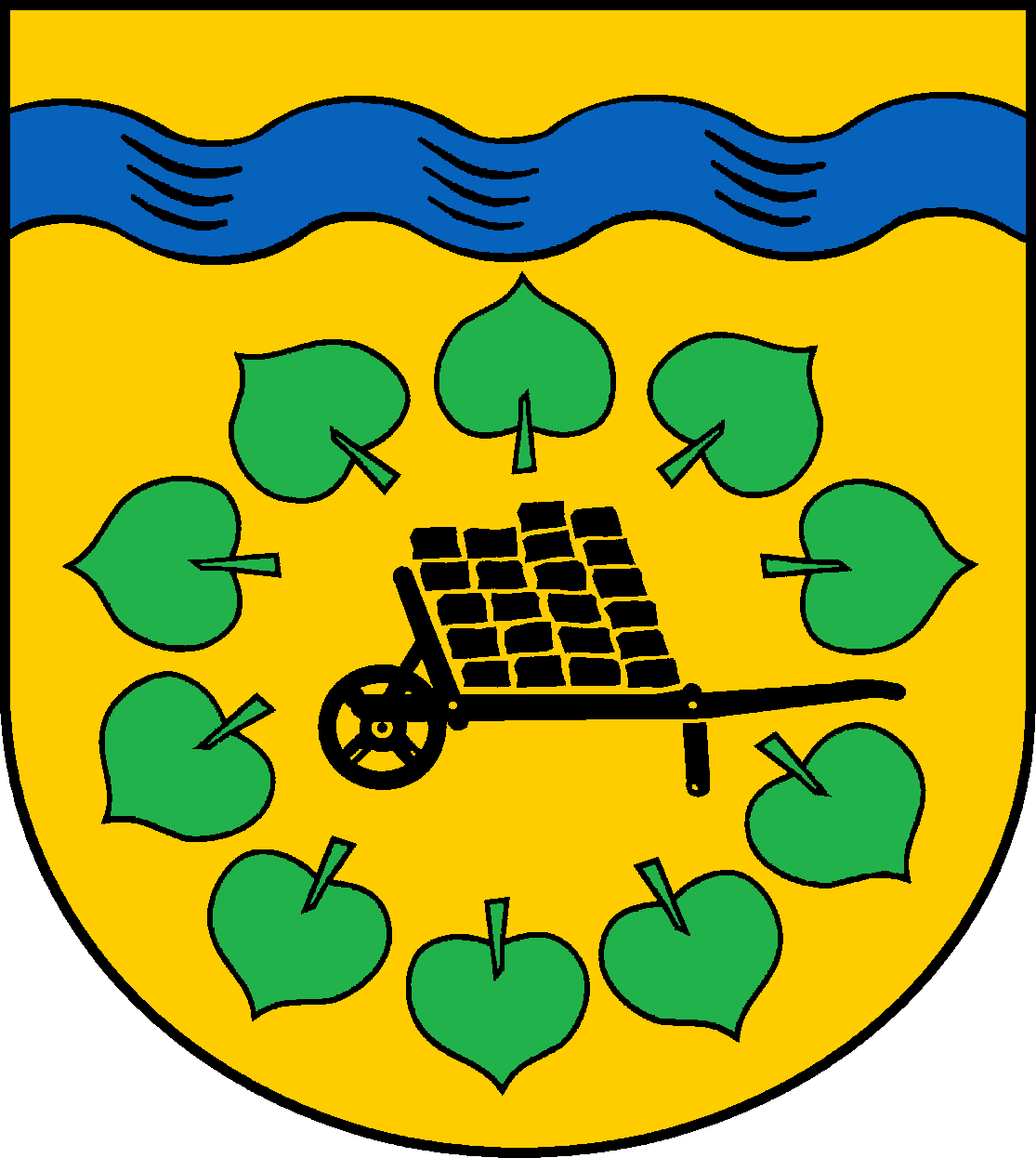 Coat of arms of the municipality Fredesdorf in Schleswig-Holstein, Germany.